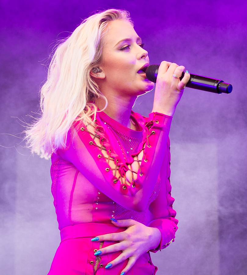 Zara Larsson at the minor stage during Stavernfestivalen in Stavern on 08. July 2016. Lineup:Zara Larsson (vocal)